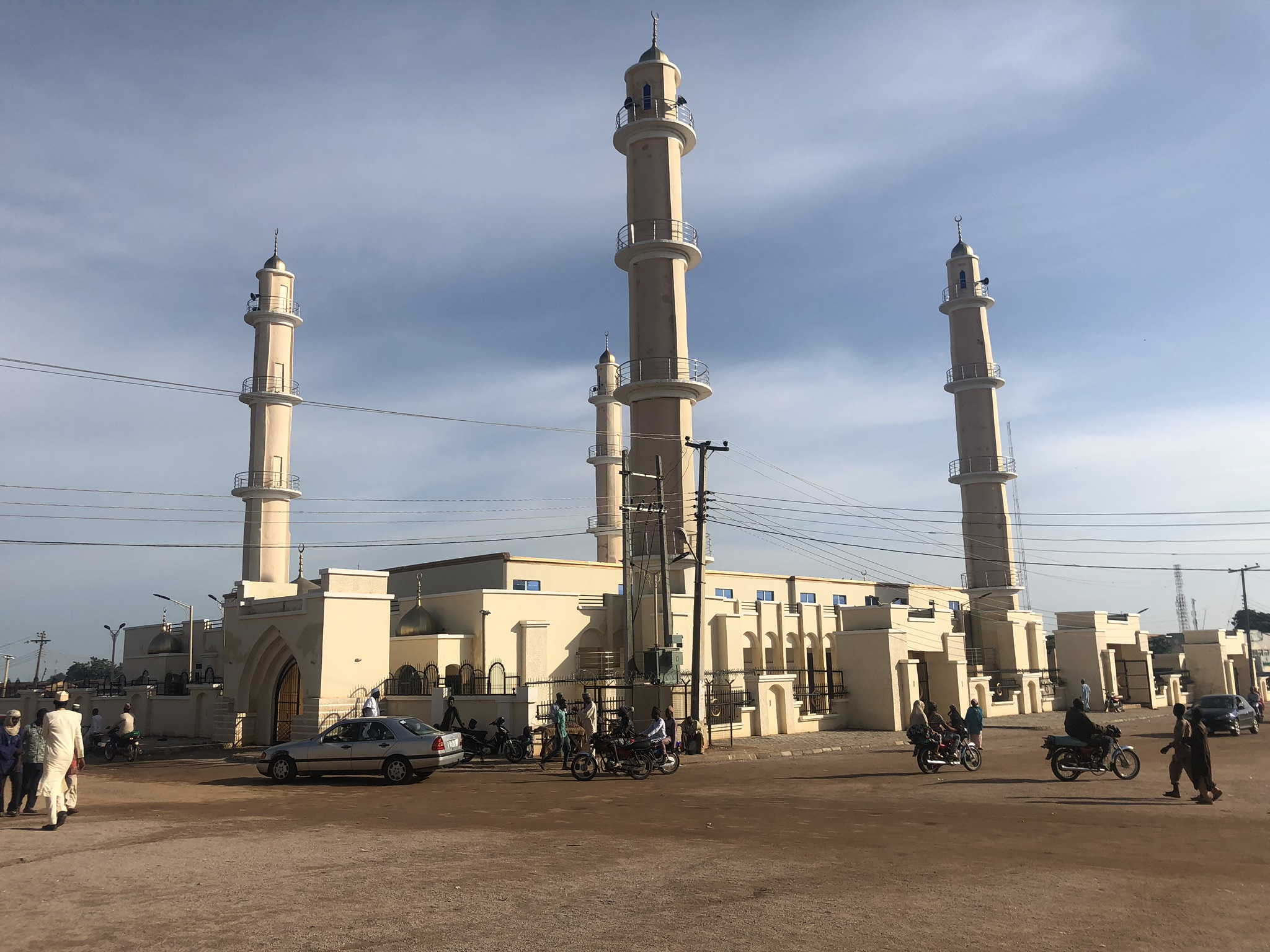 The central mosque in Zaria City Kaduna State